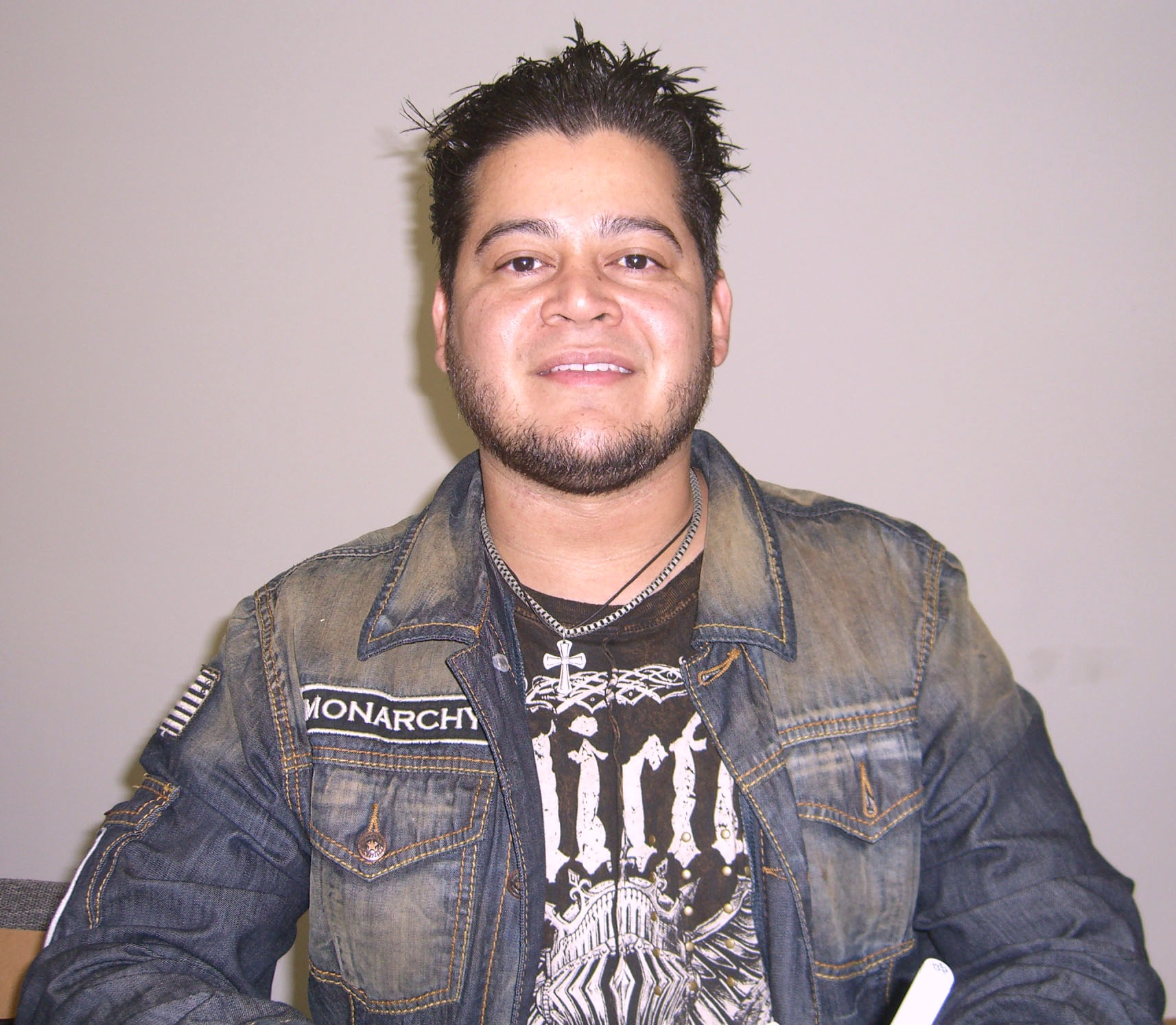 Comic book creator Eric Basaldua at the Big Apple Convention in Manhattan. This photo was created by Luigi Novi. It is not in the public domain, and use of this file outside of the licensing terms is a copyright violation.